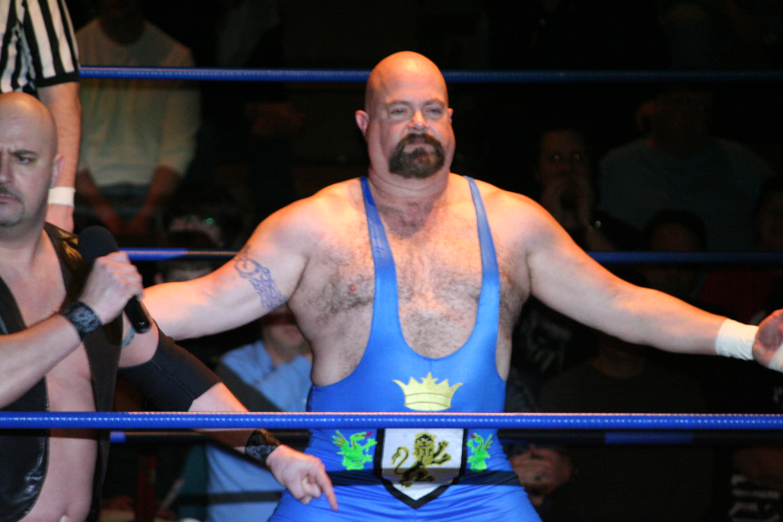 Cueball Carmichael at Chinlock for Chuck in Durham, North Carolina in January 2012.